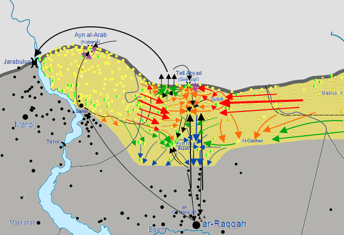 Map of the offensive routes of the Kurdish-launched Tell Abyad offensive (2015). After the initial advances of the offensive ended on June 25, ISIL carried out a suicide attack on Kobanî, as well as an attack on Tell Abyad, from June 25 through July 3. ISIL also launched multiple counterattacks into the M4 Highway intersection and Ayn Issa; however, these attacks were fully repelled by July 10, and the Kurdish-led forces were able to recapture all of the areas lost, thus ending their offensive on that day. The black dashed lines indicate the frontlines on May 31, 2015, prior to the start of the offensive. The arrows indicate the direction of the Kurdish-led Euphrates Volcano offensive, with the black arrows indicating the ISIL forces, and the arrow sizes indicate the size of the forces in transit, proportionally. Arrows indicating the direction of the Kobanî massacre are also shown. (Arrows are only included for the initial advance, up until June 25. As such, the arrows do not include the subsequent ISIL and YPG counterattacks.) Red arrows = Stage 1: Advance to Suluk - May 31–June 13, 2015 Orange arrows = Stage 2: Capture of Tell Abyad & Entry into Ayn Issa - June 13–17, 2015 Green arrows = Stage 3: Crushing ISIL pockets & Capture of Ayn Issa - June 17–22, 2015 Blue arrows = Stage 4: Capture of M4 Highway segment and final push - June 22–25, 2015 Purple arrows = Kurdish-led response to Kobanî massacre and ISIL sleeper attacks at Tell Abyad - June 25–July 1 Black arrows = ISIL routes of attack and retreat